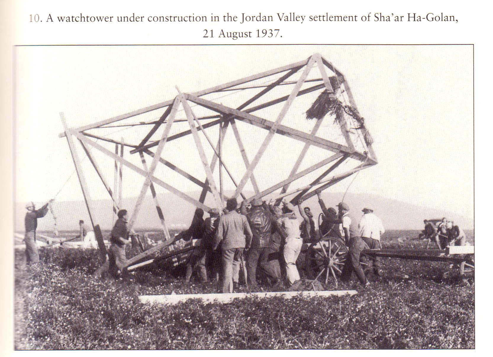 Sha'ar HaGolan. Watchtower under construction. 21 August 1937.